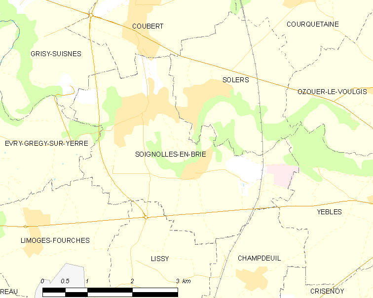 Map of French municipality Soignolles-en-Brie